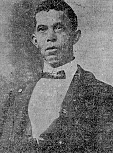 This photograph of James Parker appeared in the Buffalo Times, September 15, 1901, with the following caption: "James Benjamin Parker, The Negro Who Struck Down Leon Czolgosz, the Assassin of President McKinley, and Thus Became Famous in a Single Day." W. Cotter, photographer.